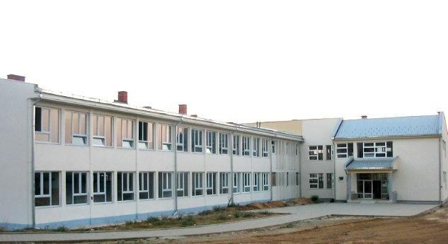 Luciano Motoroni school